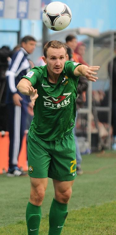 Aleksei Kozlov with FC Kuban Krasnodar in 2012.